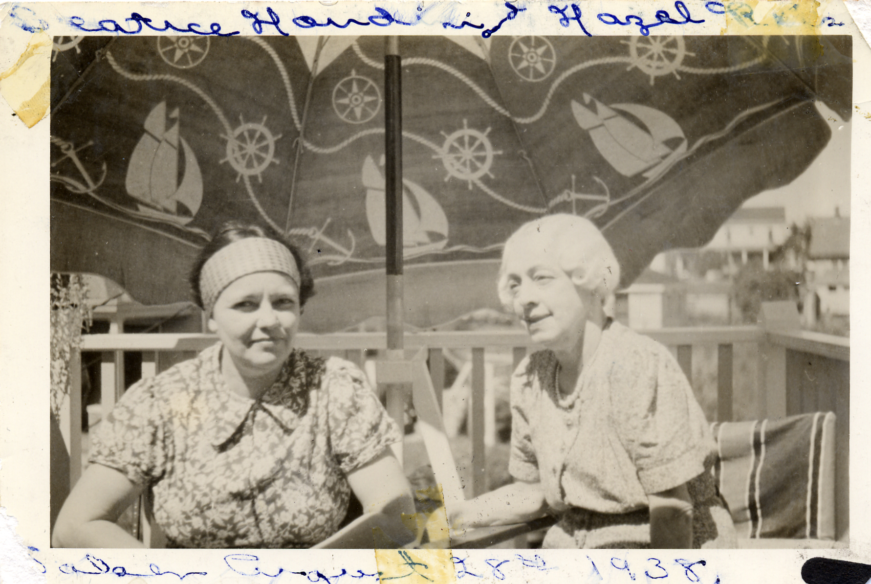 Hazel Marion Eaton with Beatrice Houdini, Florida, Aug. 28, 1938